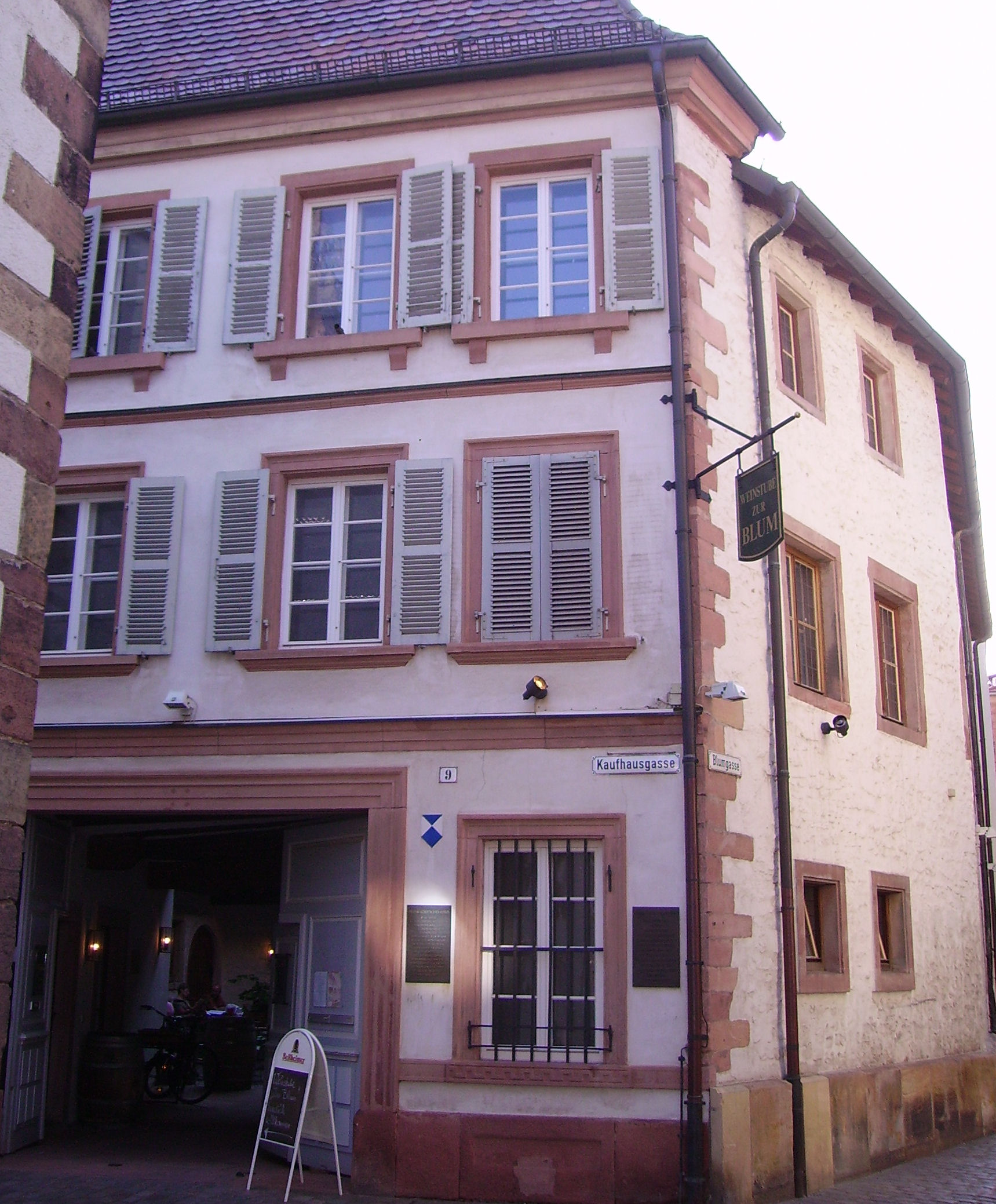 view of Landau (Pfalz), Germany